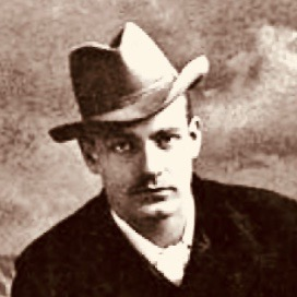 Willi Grétor (1868–1923), also Gretor, in fact: Julius Rudolph Vilhelm Petersen, born on Wundlacken Castle near Königsberg in East Prussia, raised in the Danish capital Copenhagen. He was the husband of painter Rosa Pfäffinger (1866–1949) and the father of Lilly Ackermann (1891–1976), née Schorer, and Georg Gretor (1892–1943).